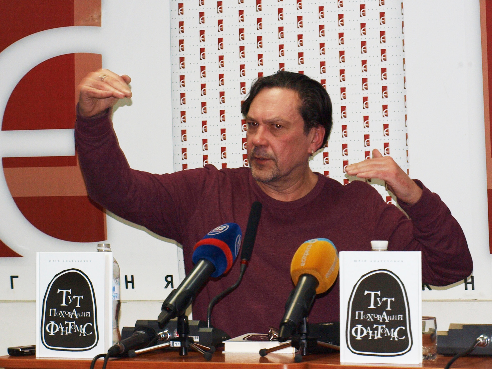 Yuri Andruchovych in Kyiv